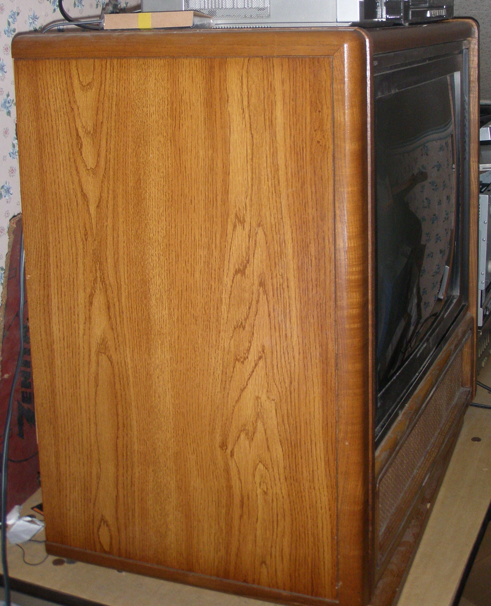 wood veneer Dimensia TV console